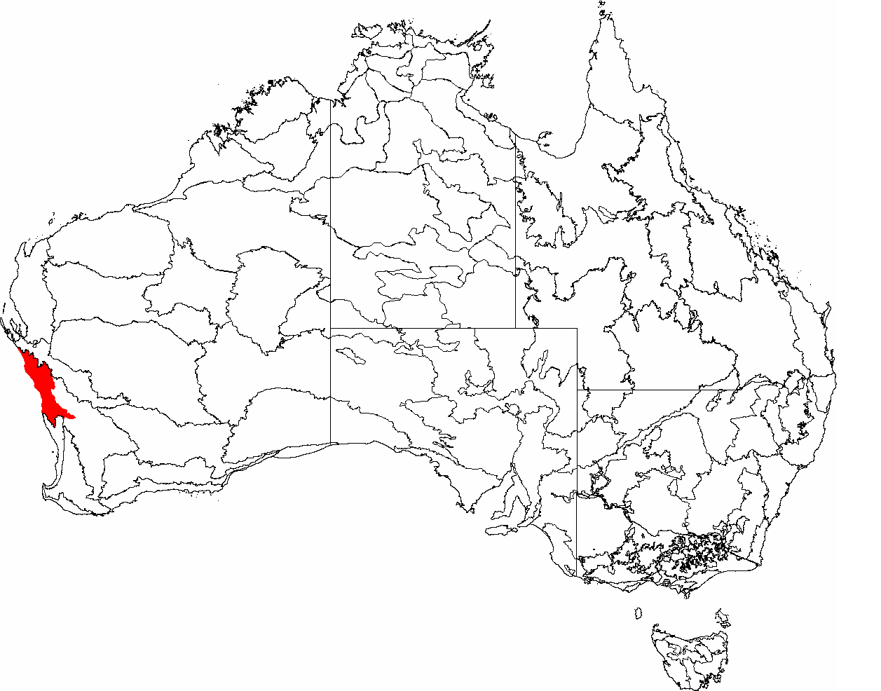 This is a map of the Interim Biogeographic Regionalisation of Australia (IBRA), with state boundaries overlaid. The Geraldton Sandplains region is shown in red.